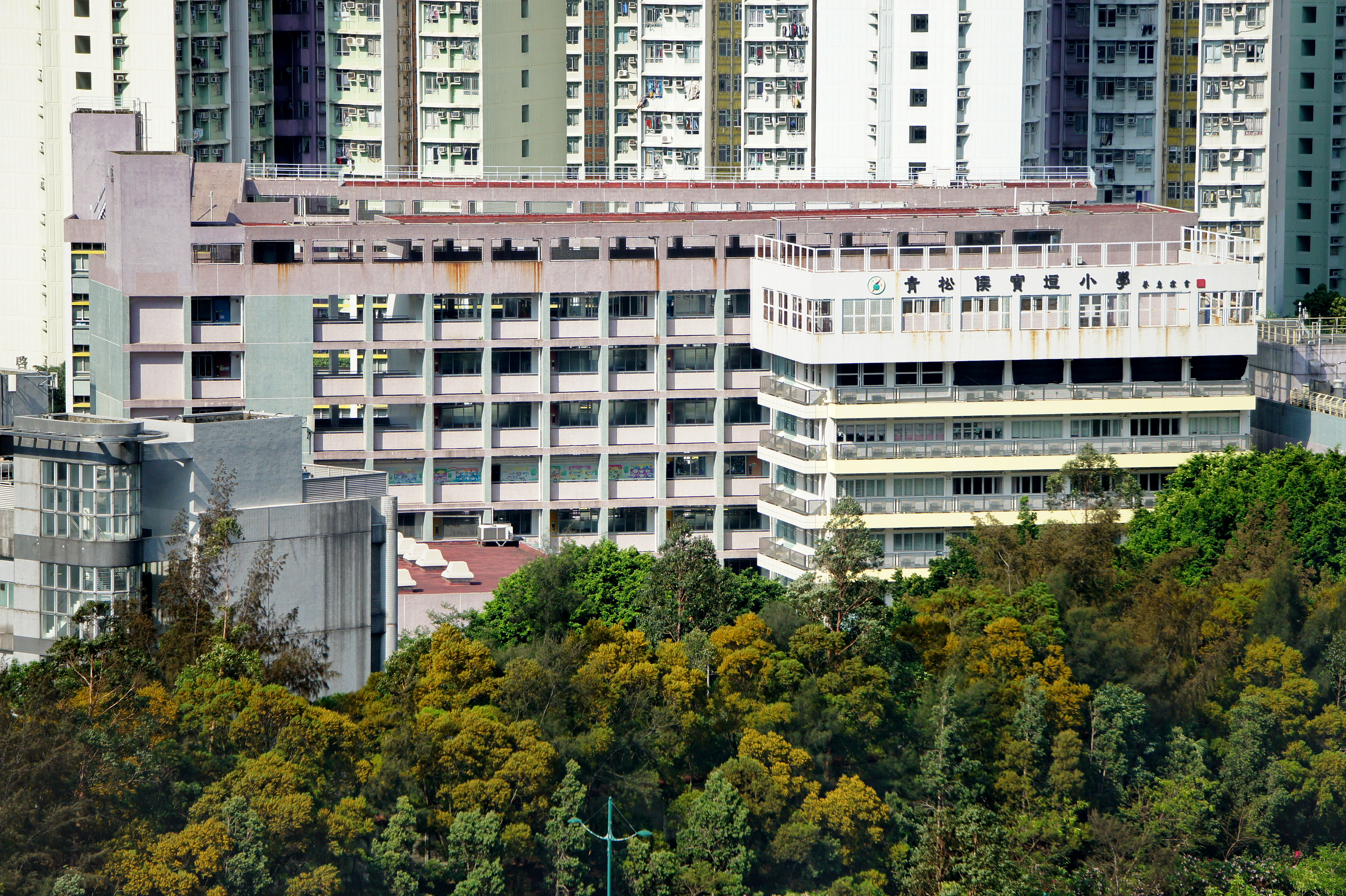 Ching Chung Hau Po Woon Primary School, Tung Chung, Hong Kong.